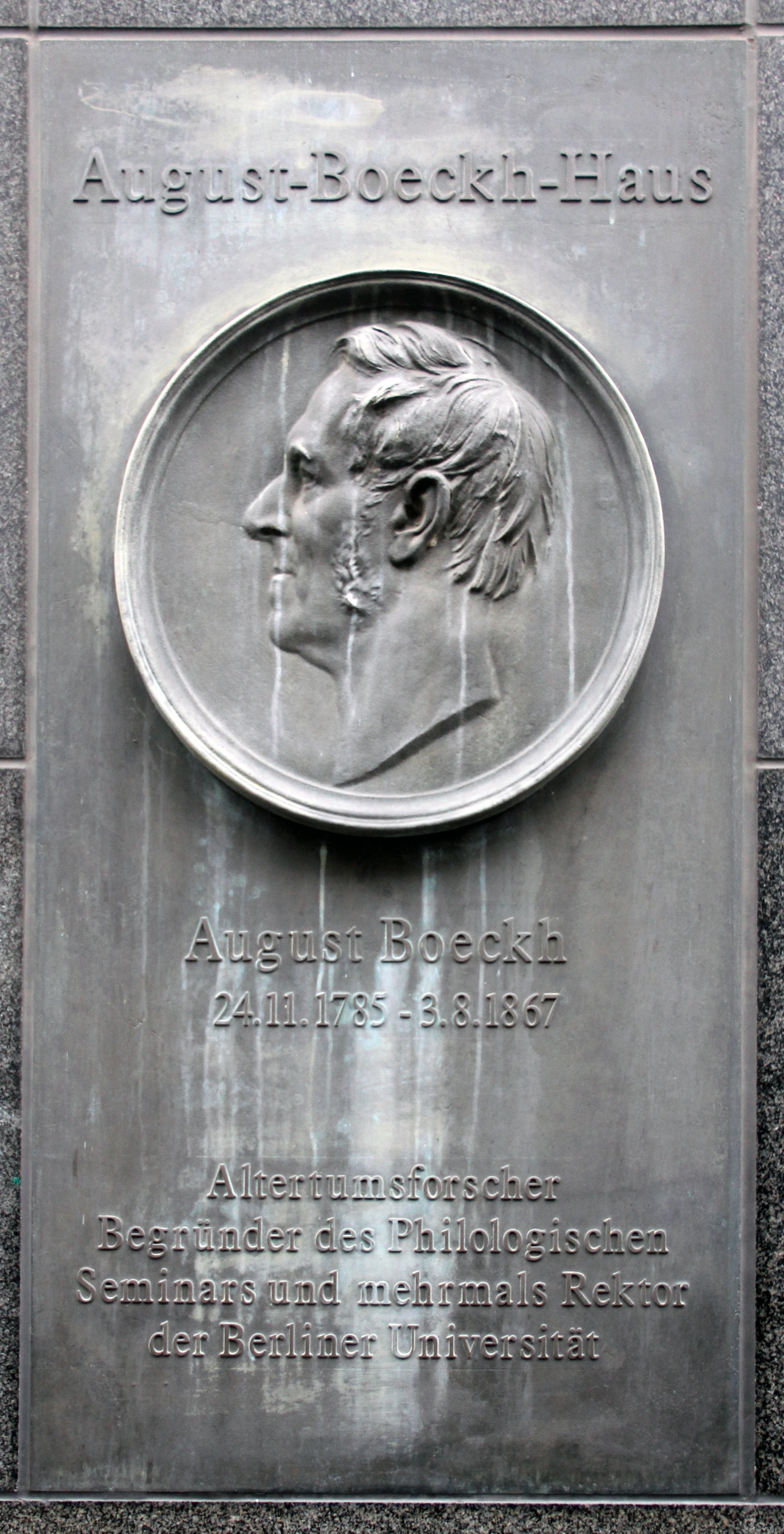 Memorial plaque, August Boeckh, Dorotheenstraße 65, Berlin-Mitte, Deutschland